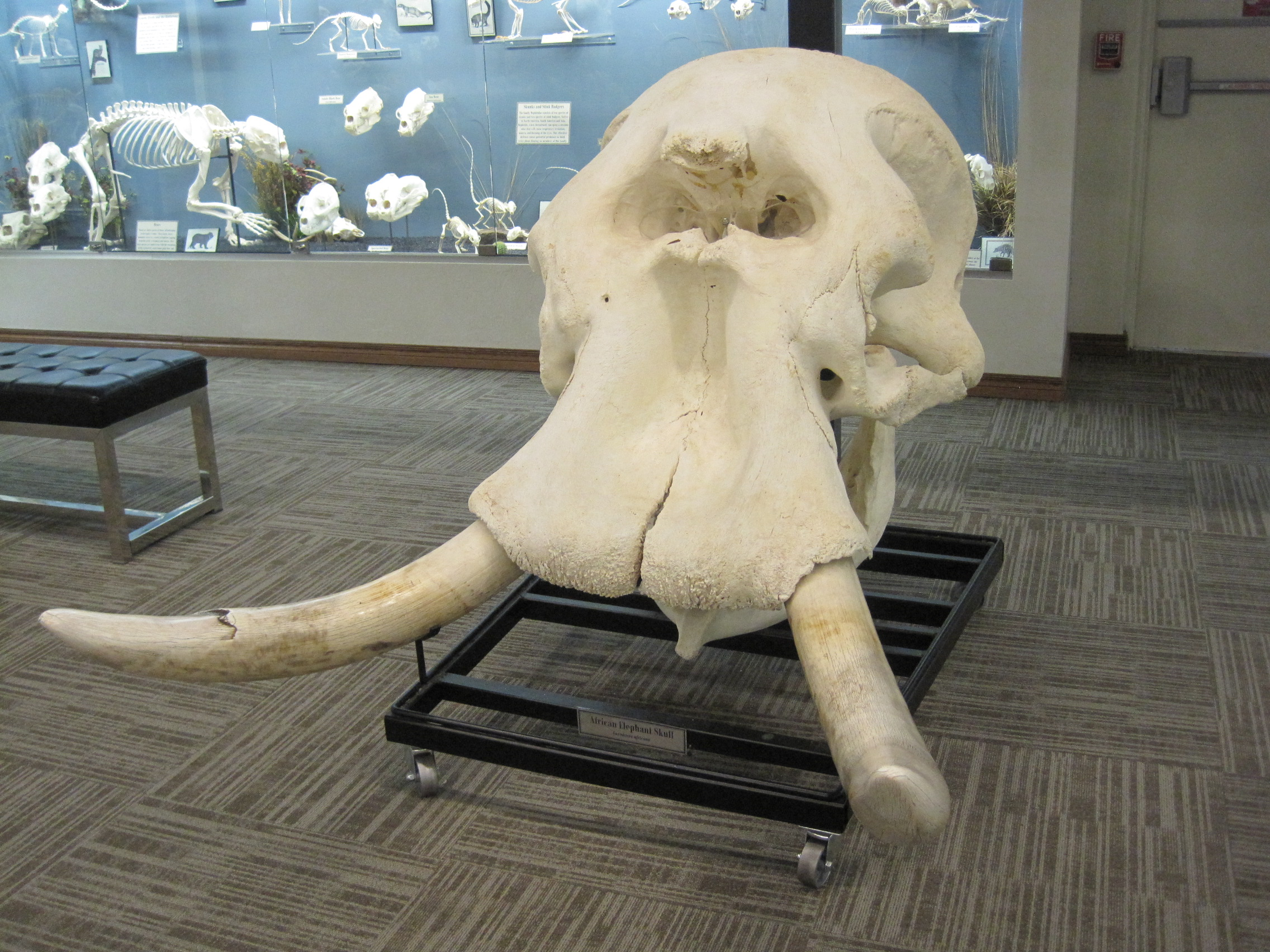 African Bush Elephant skull on exhibit at the Museum of Osteology, Oklahoma City, Oklahoma.